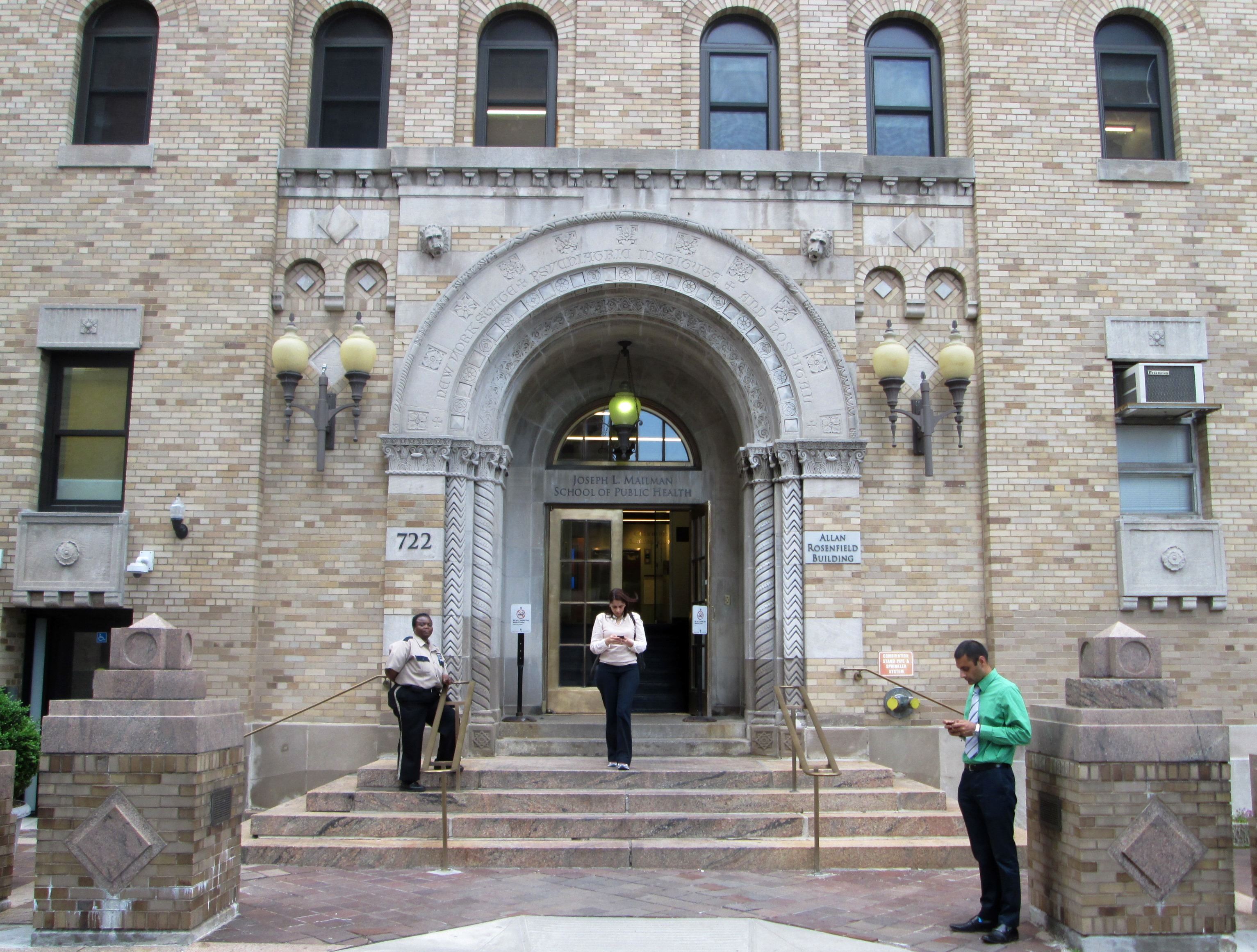 The entrance to the Allan Rosenfield Building of Columbia University's Joseph L. Mailman School of Public Health, located at 722 West 168th Street, or 1050 Riverside Drive, in the Columbia University Medical Center, in the Washington Heights neighborhood of Manhattan, New York City. The scholl was founded in 1922, and the building was constructed in 1930. (Source: NYC GIS map)